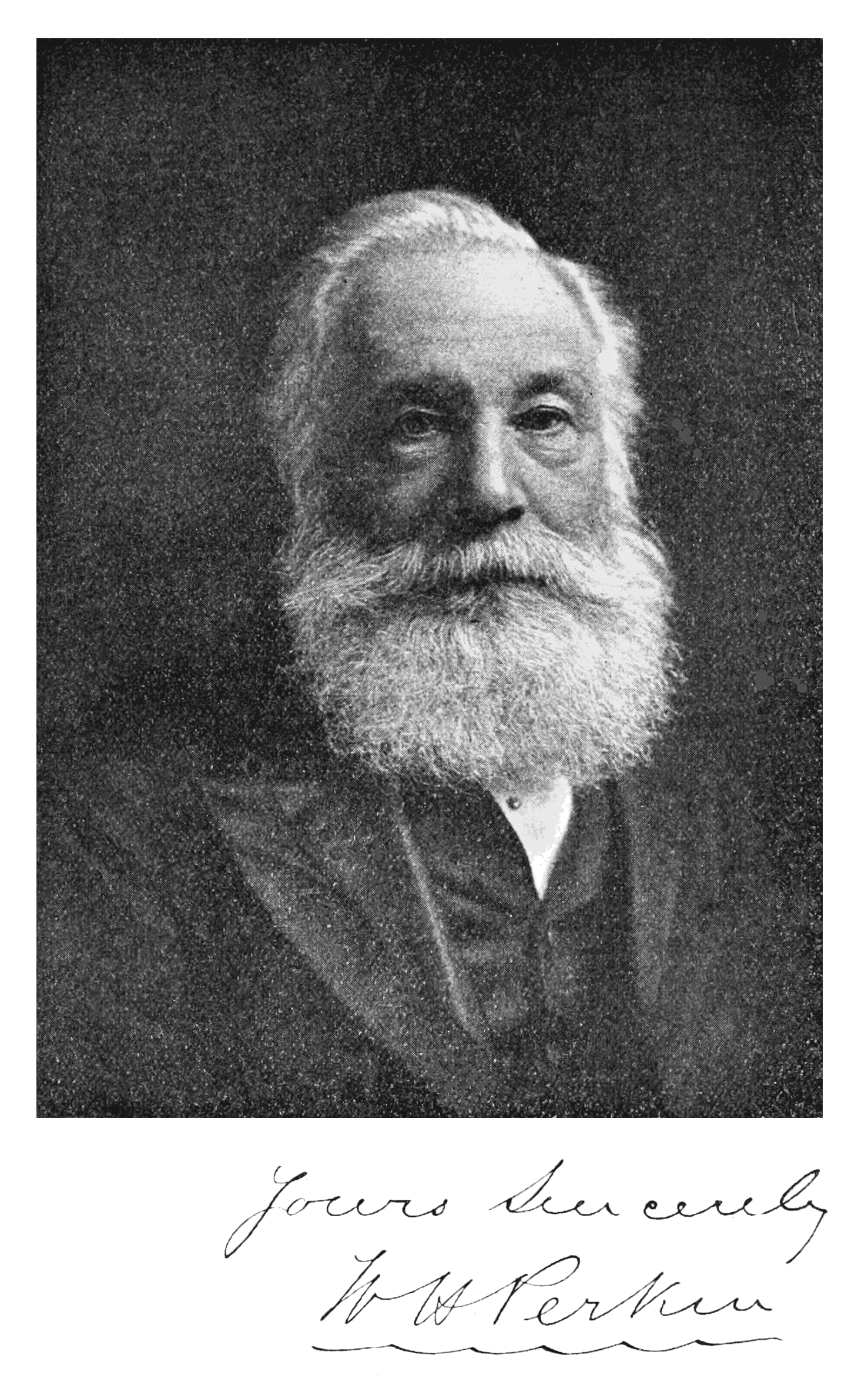 William Henry Perkin